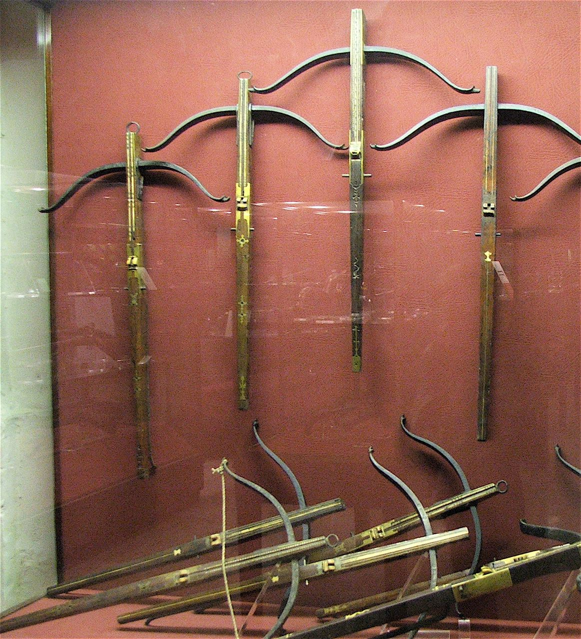 CROSSBOWS - From the earliest time in history Man tried to reach further with his weapons. At first there were throwing sticks and later the ling bow developed, but the most important advancement was the crossbow which was more powerful and arrows arrived further. The arrows were shorter but could penetrate some of the armour used, in fact some knights and other soldiers used chain mail which could absorb the strike better. They were widely used from the 14th century onwards until their place was taken by the pistol and other rudimentary firearms. - MALTA